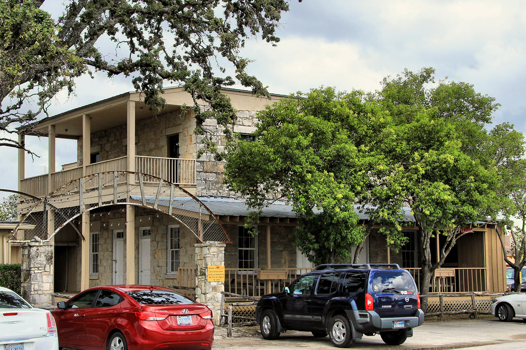 The Aue House and Hotel, built in 1878, part of the Aue Stagecoach Inn in Leon Springs, Texas, United States. The building was listed on the National Register of Historic Places on August 1, 1979.